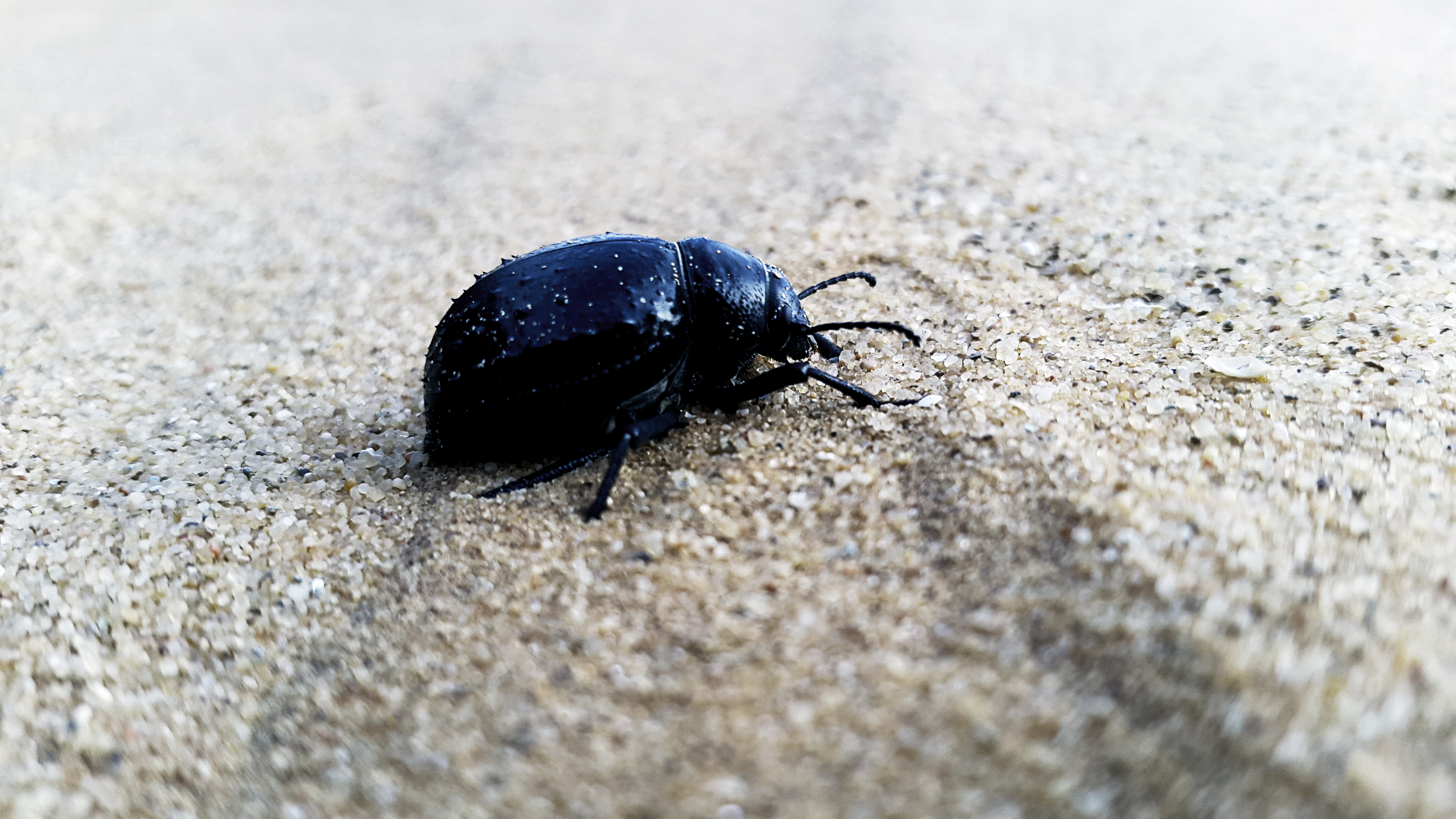 It was taken somewhere in Bordj Omar Idris in Illizi Algeria